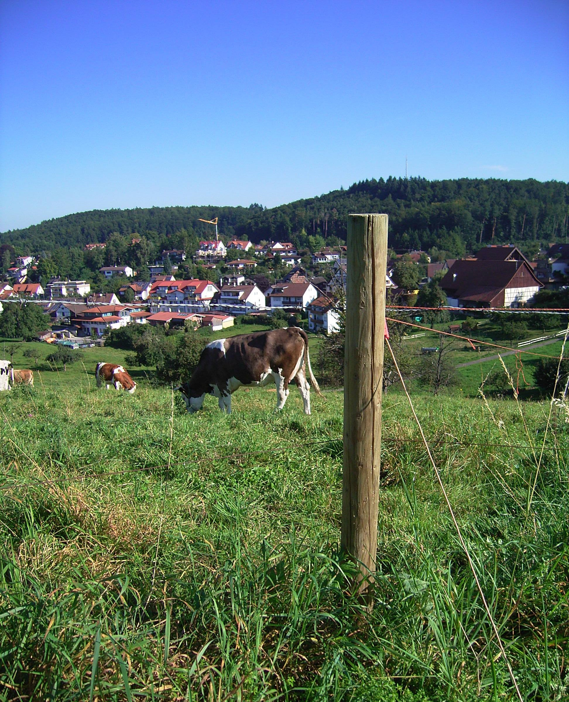 Electric low voltage fence